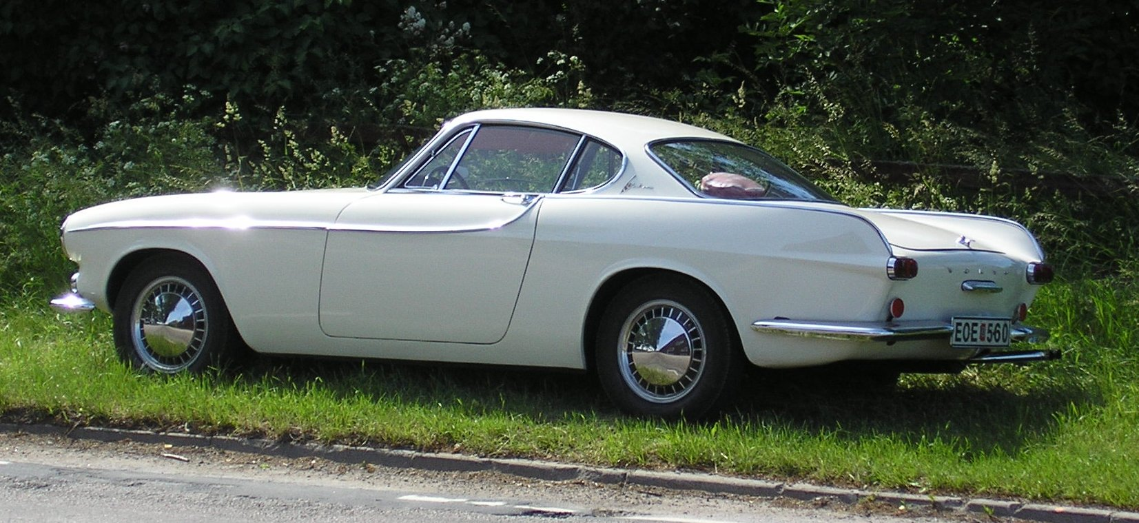 A 1961 Volvo P1800 (P18395 VA). Photographed by my girlfriend in Mariefred, Sweden 2005.